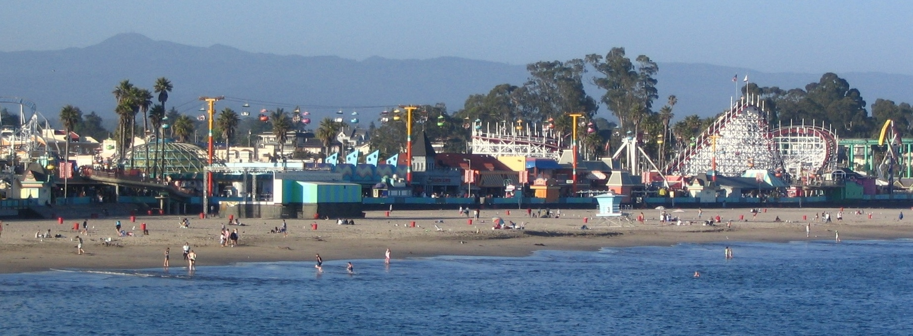 Boardwalk in Santa Cruz, California. Picture taken by Matt314 (July 2005).